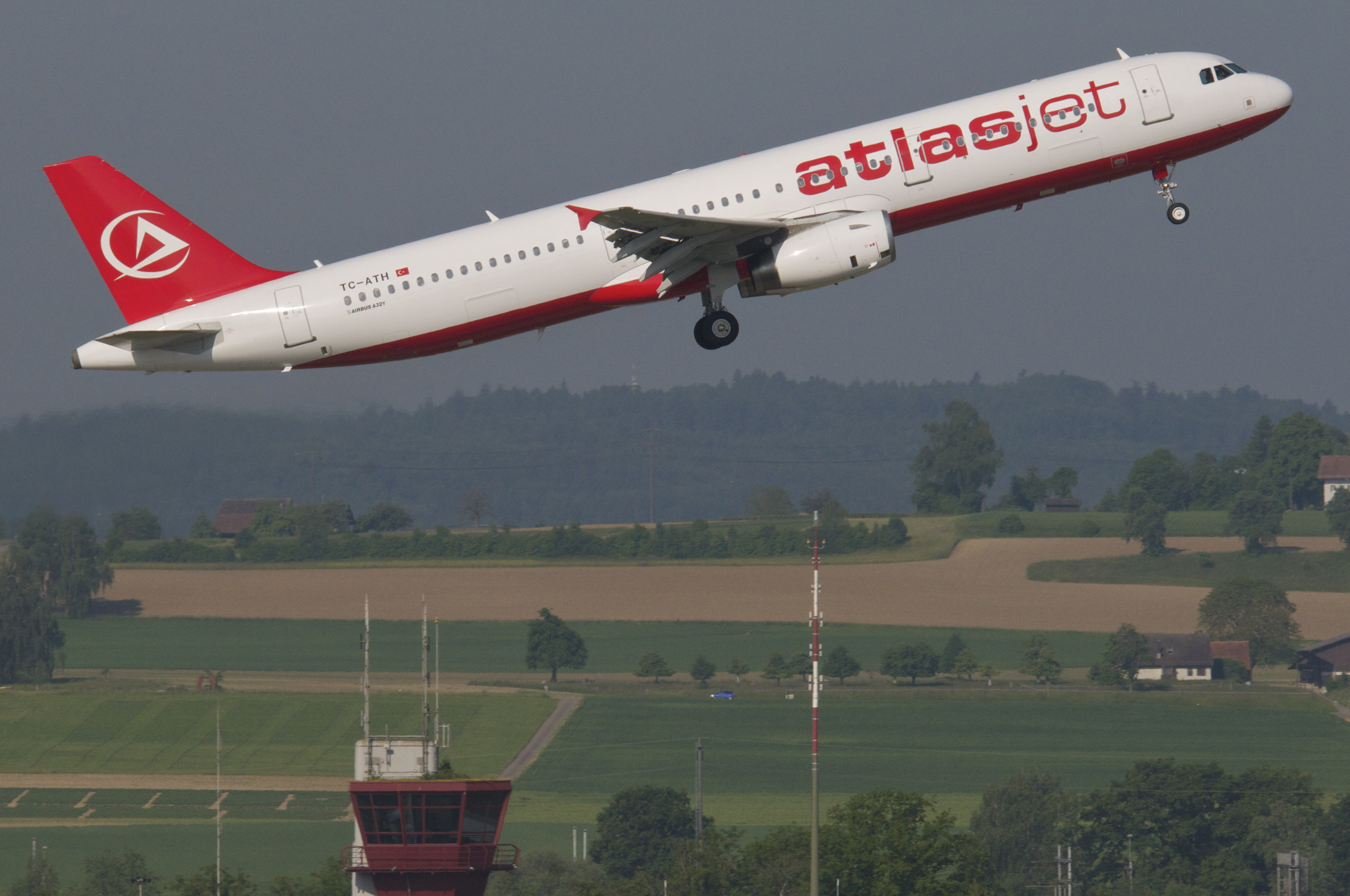 This A321 aborted its approach - operating XQ 124 from Antalya - rather late - and opened up a new angle for this go around...